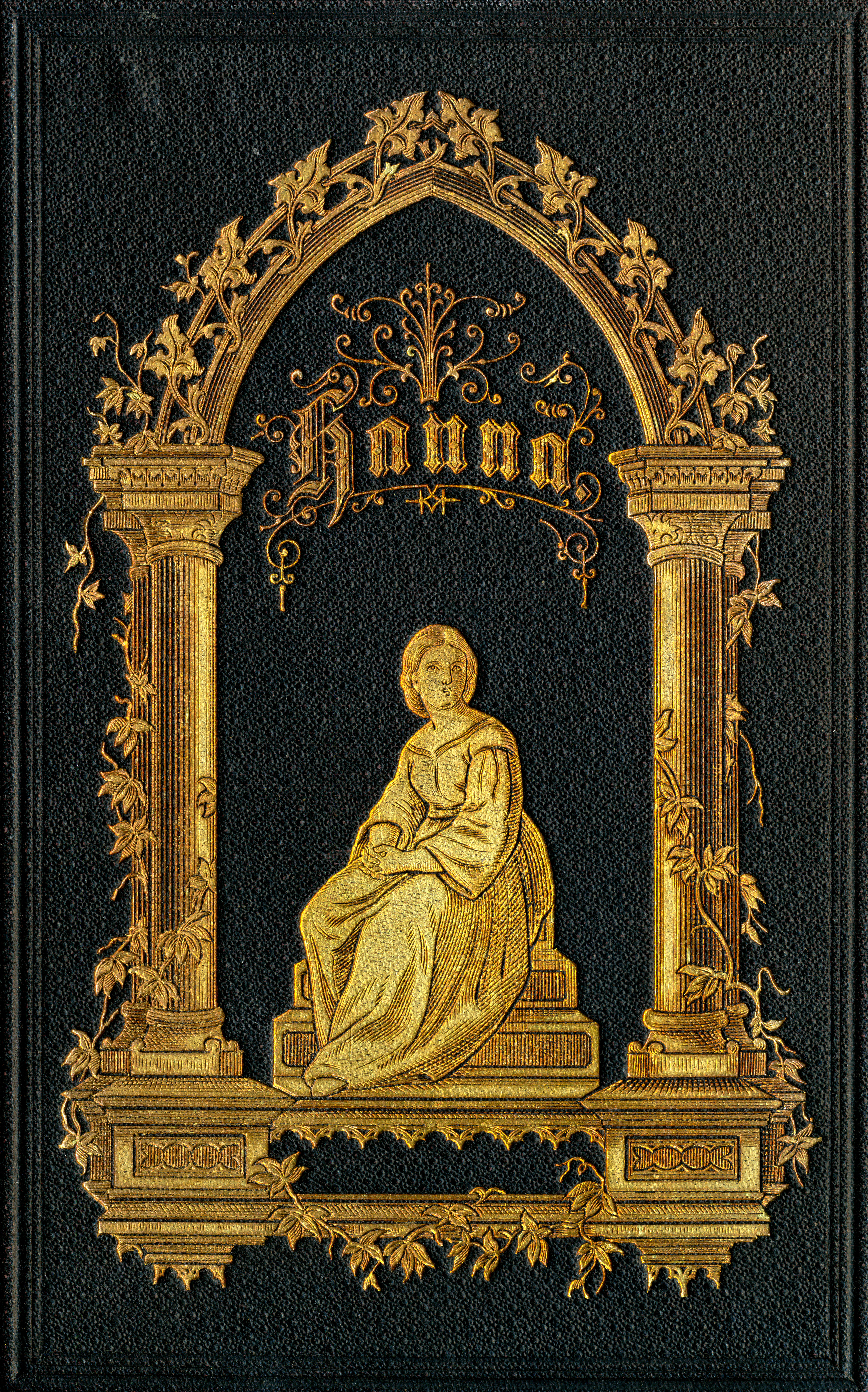 Gilded book cover of antique Jewish prayer book "Hannah".